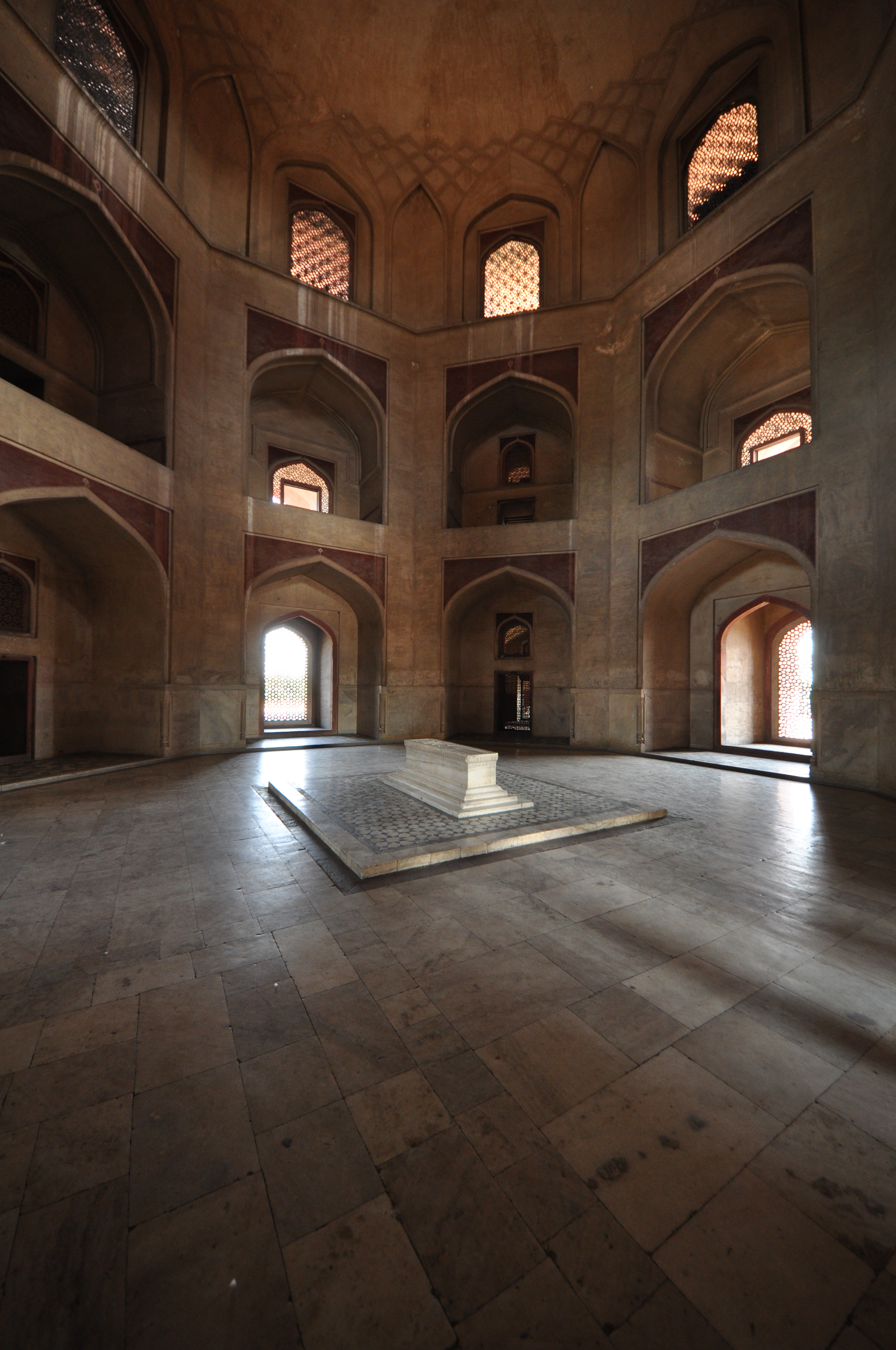 Main room in Humayun's Tomb.